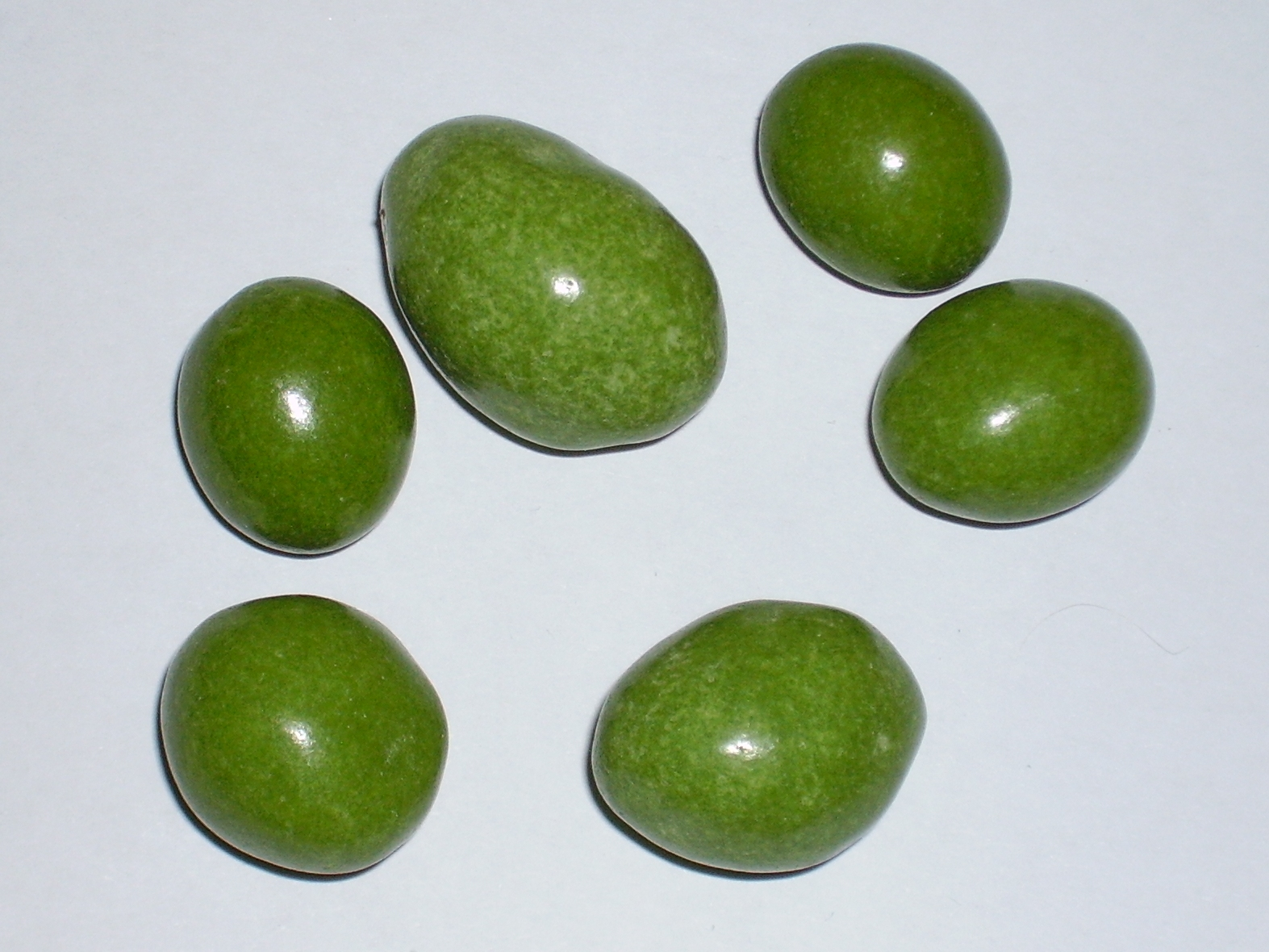 Sweets coloured green with Chlorophyll